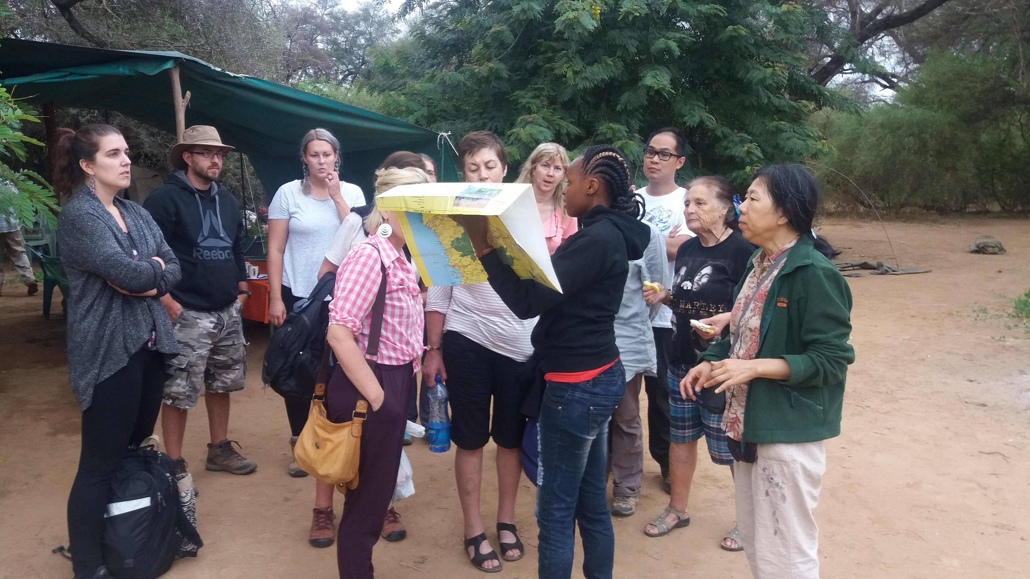 Female tour guide This is an image of "African people at work" from Kenya